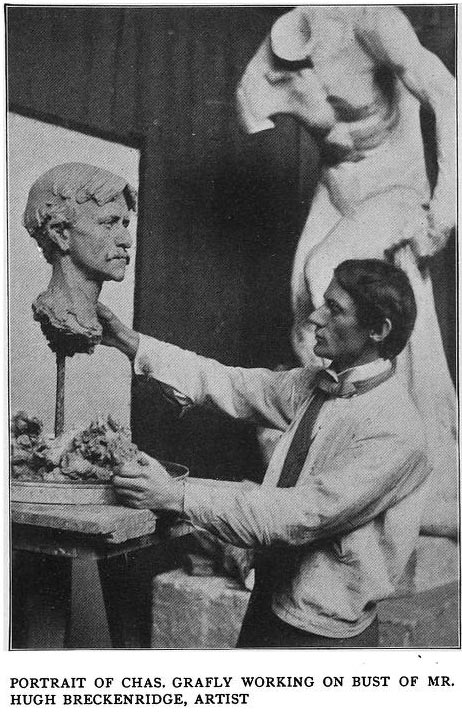 "Portrait of Chas. Grafly working on a bust of Mr. Hugh Breckenridge, artist."